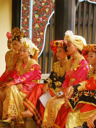 Wearing traditional minang costumes, these girls are waiting for their turn to perform in a carnival. Minangkabau or Minang ethnic group originates from the part of west coast of Indonesian third largest island, Sumatra.